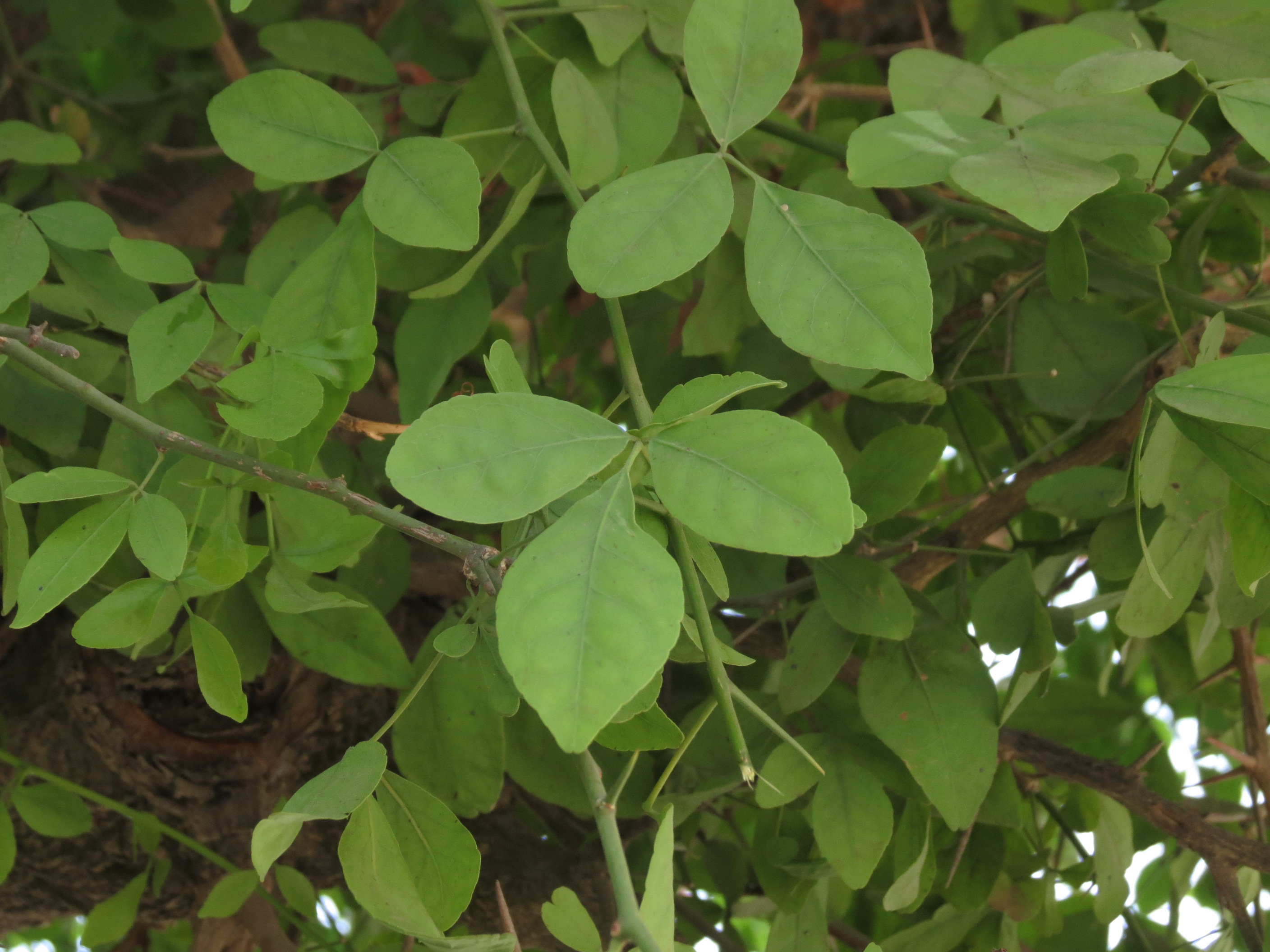 Aegle marmelos leaf seen in kasavanahalli Bangalore